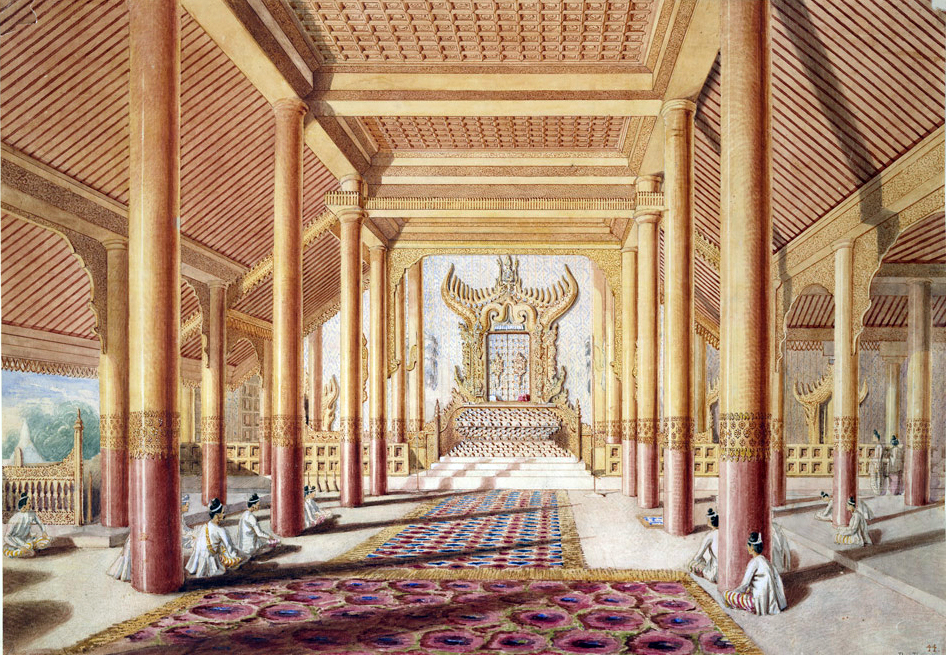 Watercolour with pen and ink of an interior view of the audience chamber in the Palace at Amarapura looking towards the throne from 'A Series of Views in Burmah taken during Major Phayre’s Mission to the Court of Ava in 1855' by Colesworthy Grant. This album consists of 106 landscapes and portraits of Burmese and Europeans documenting the British embassy to the Burmese King, Mindon Min (r.1853-1878). The mission took place after the Second Anglo-Burmese War in 1852 and the annexation by the British of the Burmese province of Pegu (Bago). It was despatched by the Governor-General of India Lord Dalhousie on the instructions of the East India Company, to attempt to persuade King Mindon to sign a treaty formally acknowledging the extension of British rule over the province. The mission started out from Rangoon (Yangon) and travelled up the Irrawaddy (Ayeyarwady) to the royal capital at Amarapura, founded in 1782. Grant (1813-1880) was sent as the official artist of the mission. Together with a privately-printed book of notes, his drawings give a vivid account of the journey, and a number were used for illustrations to Henry Yule’s ‘A Narrative of the mission sent by the Governor General of India to the Court of Ava in 1855’ published in 1858. Grant wrote that the audience chamber in this view was 'called ‘Thee-ha-thuna-yàzà-pulleng’, and used only on occasions of importance...the blaze and brilliancy of the colonnaded hall, with its choir and transepts, its elaborately ornate and singular throne, glittering in mosaic and gold...' Today, little remains of the palace buildings at Amarapura.